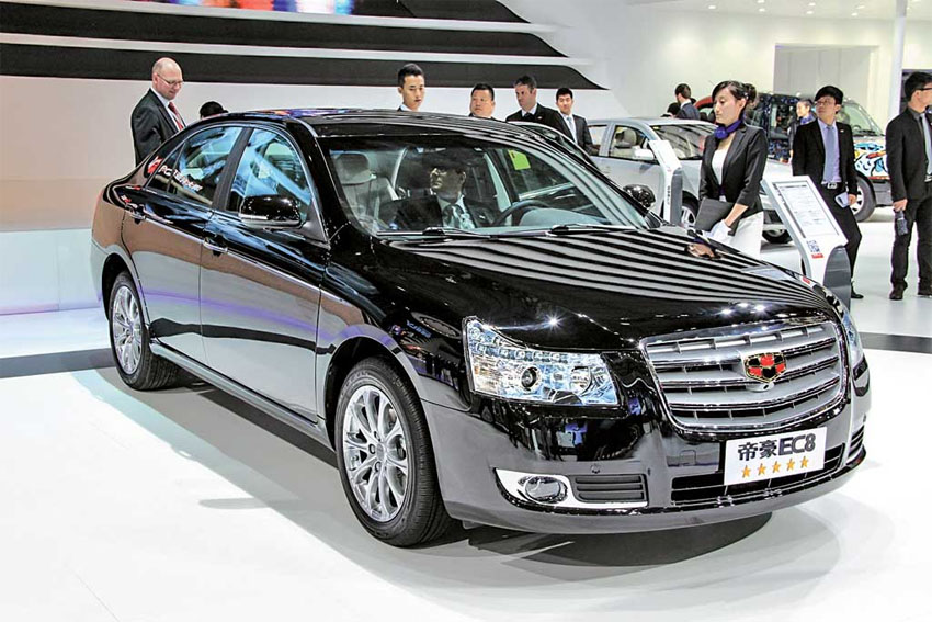 grand